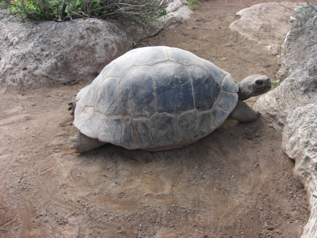 Galapagos tortoise at the Bermuda Aquarium, Museum and Zoo.